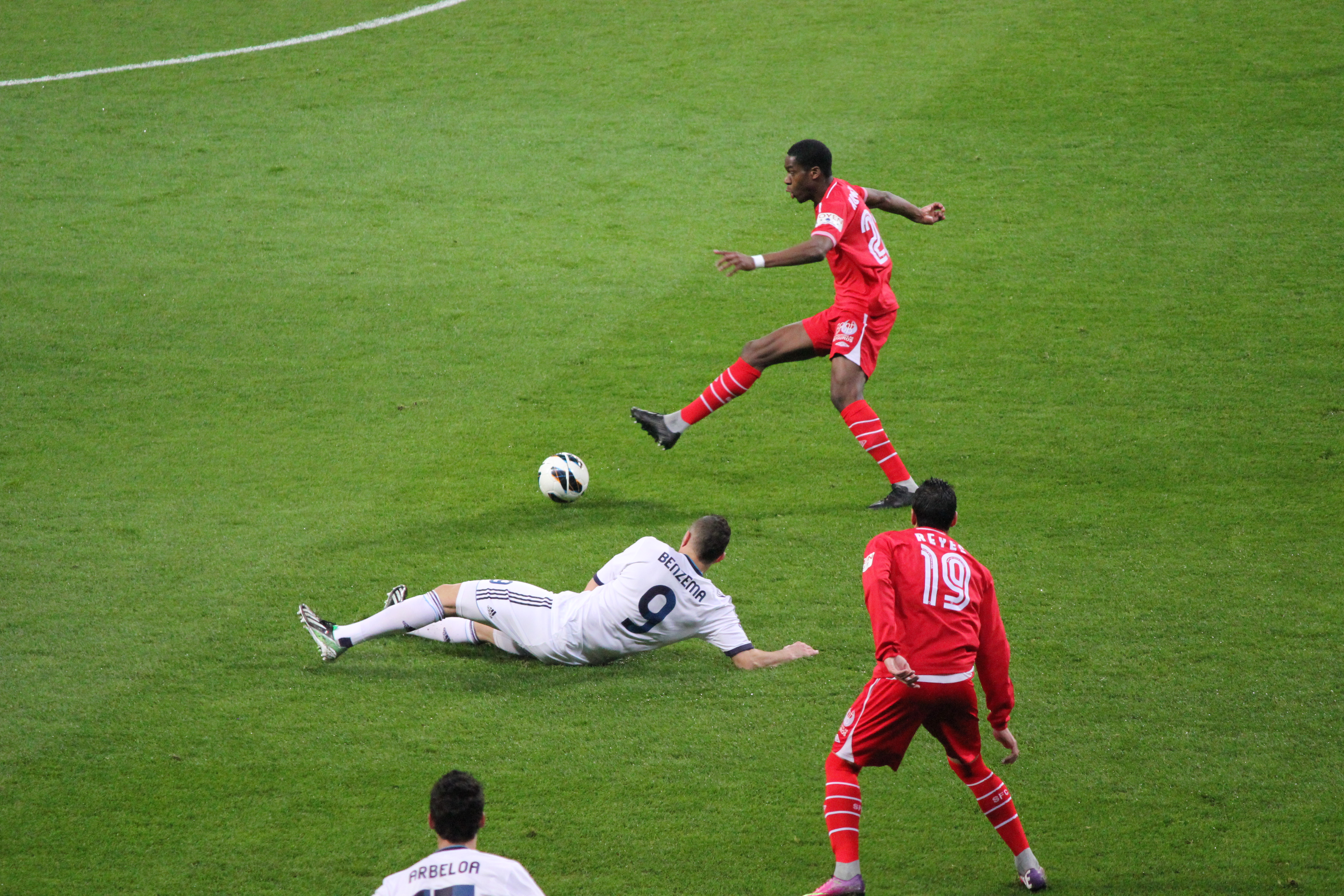 Real Madrid v Sevilla 10 February 2013 in a La Liga game at Real Madrid's home grounds.